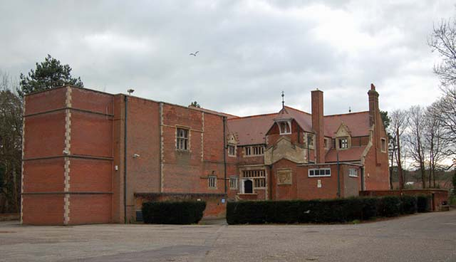 The Knole, Now Freemason's Hall, Knole Road, Boscombe Built in 1873 by John Dando Sedding for Edmund Christy, The Knole was a private residence until 1956 when it was purchased by Bournemouth Masonic Buildings Ltd and is now the home of some 19 or so Masonic Lodges. It is now a listed building